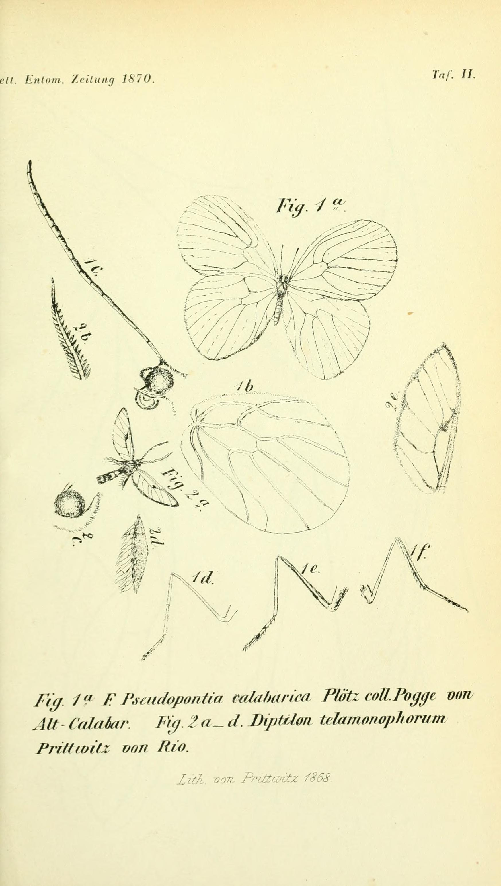 Plötz, C. (1870) Pseudopontia Calabarica n. gen. et n. sp. Stettiner Entomologischer Zeitung, 31, 348–349, 1 pl.